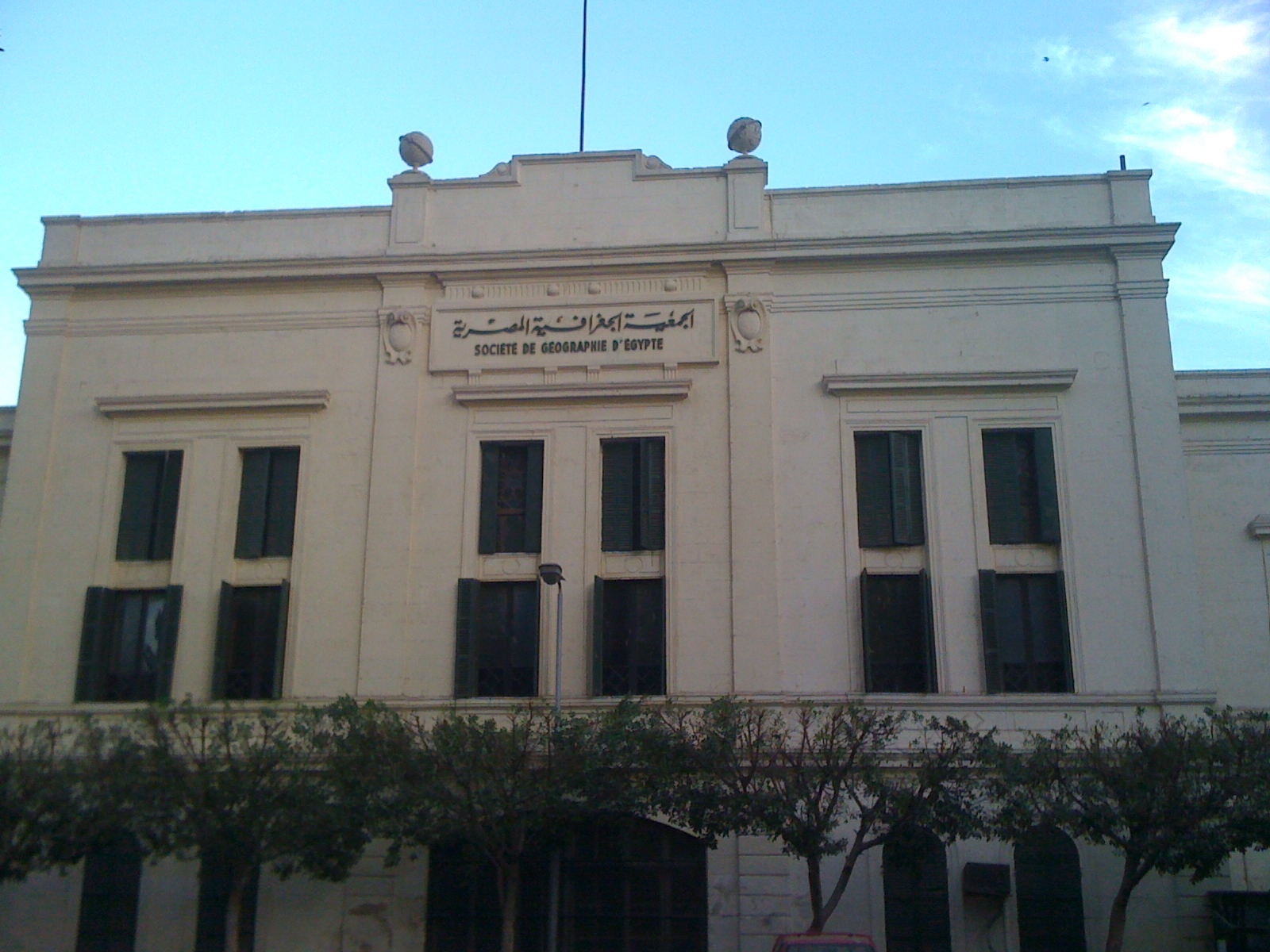 View of The Society for Egyptian Geography from Qasr al-Ayn Street